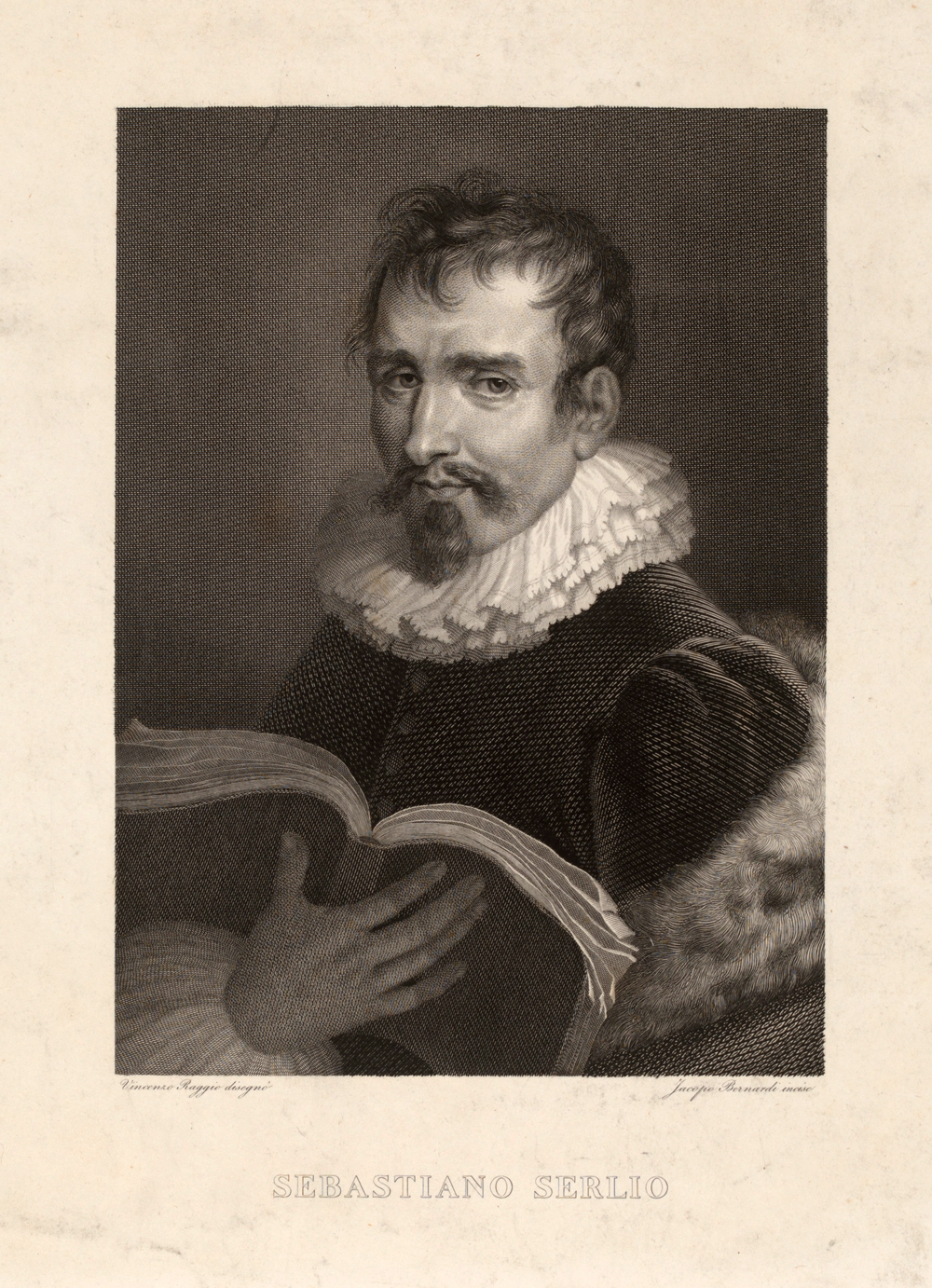 Depicted person: Sebastiano Serlio – Italian architect and painter (1475-1554)